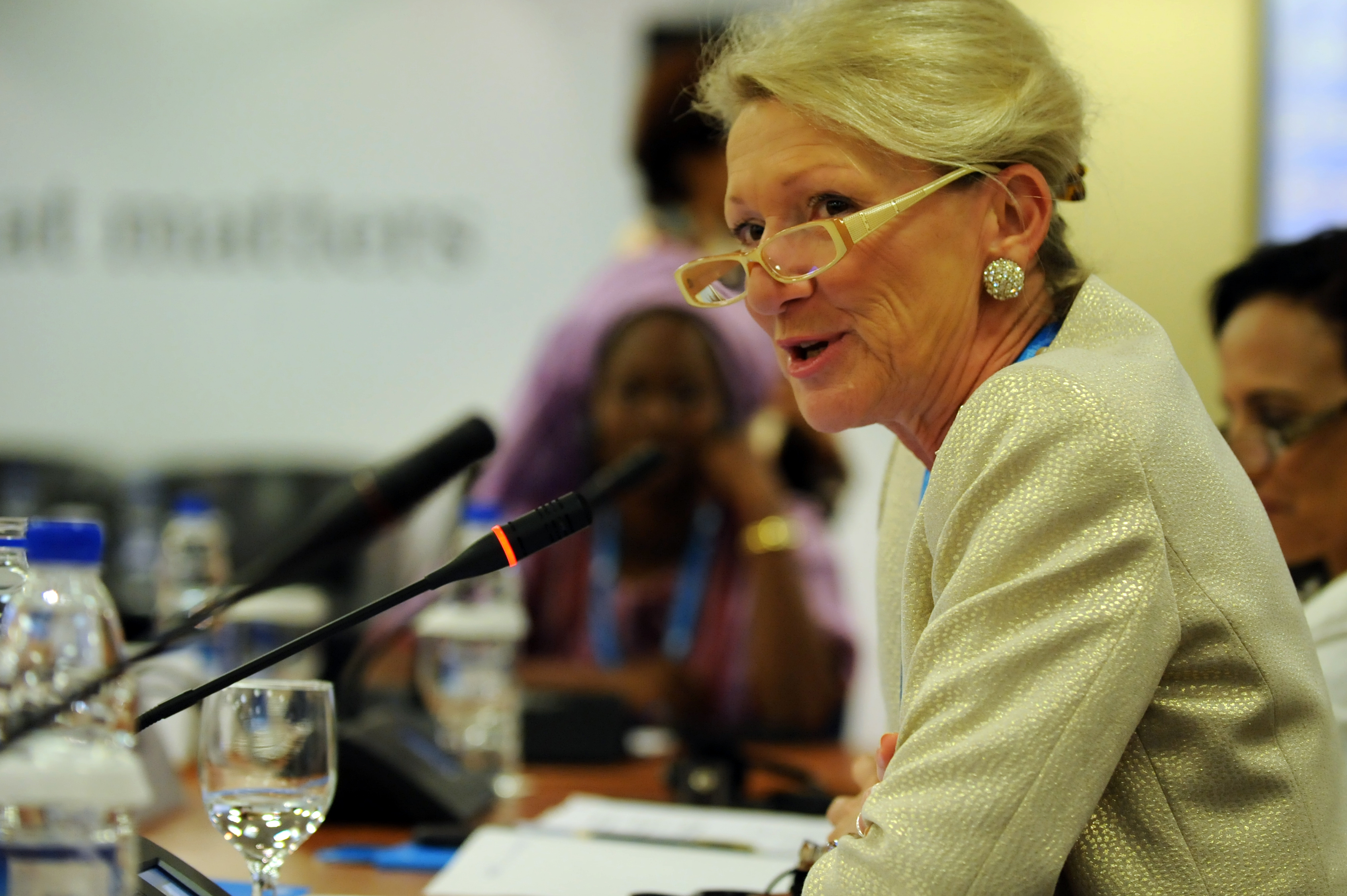 Mrs Deborah Taylor Tate, Special Envoy For ITU Child Online Protection, United Arab Emirates ITU/R.Farrell